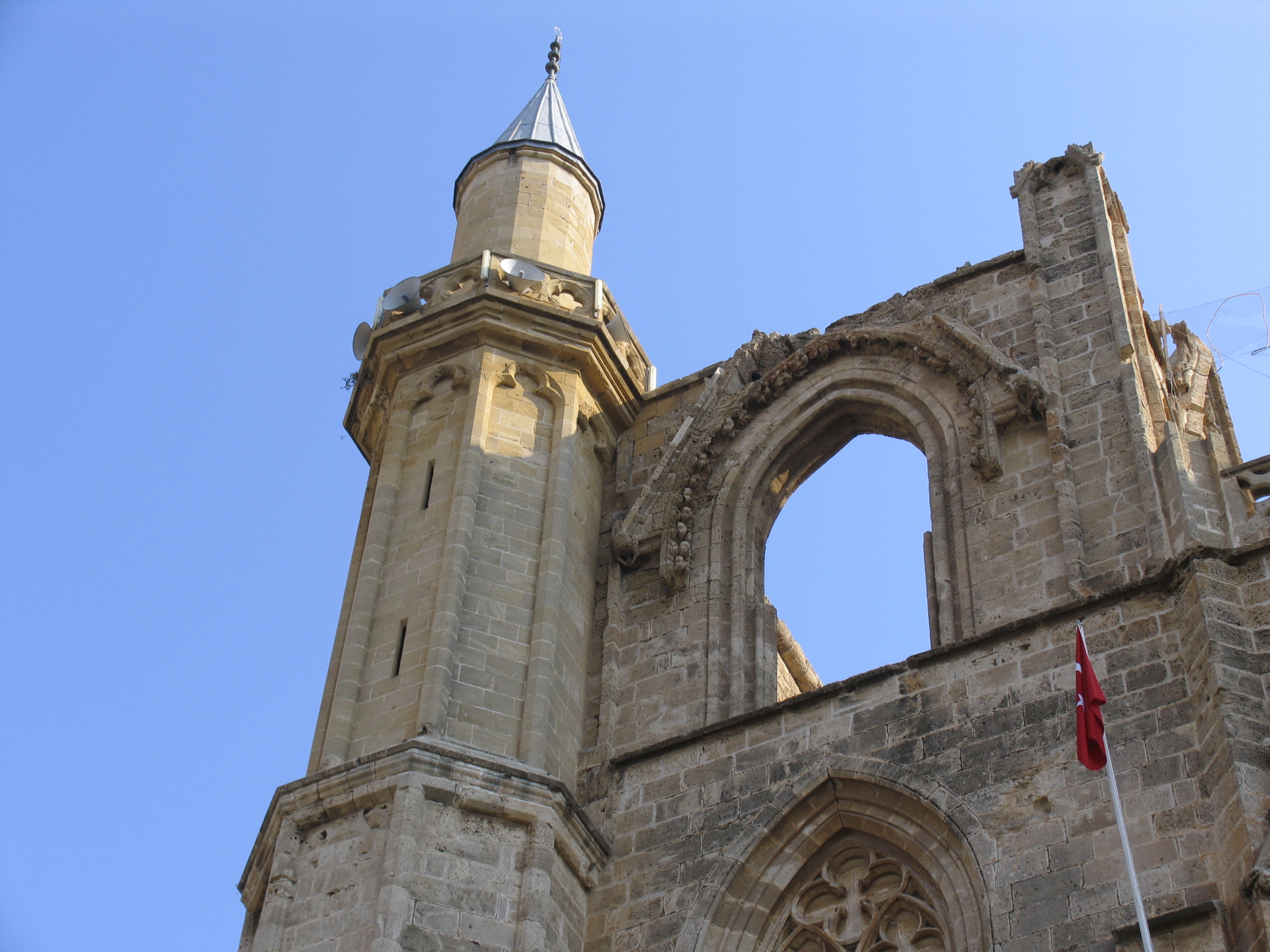 Picture Was Photographed By Daniel Attarian - Famagusta Cyprus - 22 Oct 2006